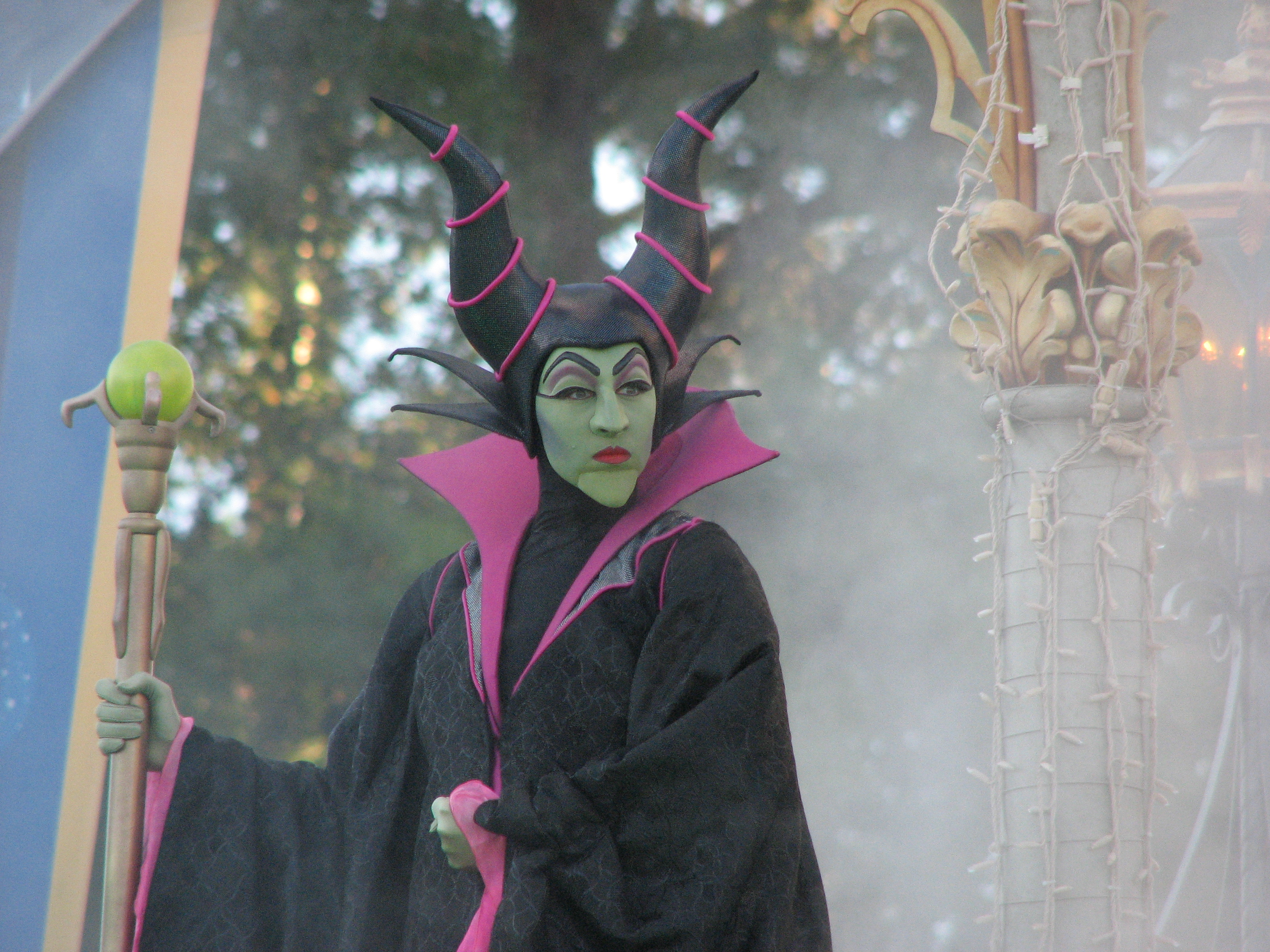 Maleficent from Sleeping Beauty appears in a stage show.